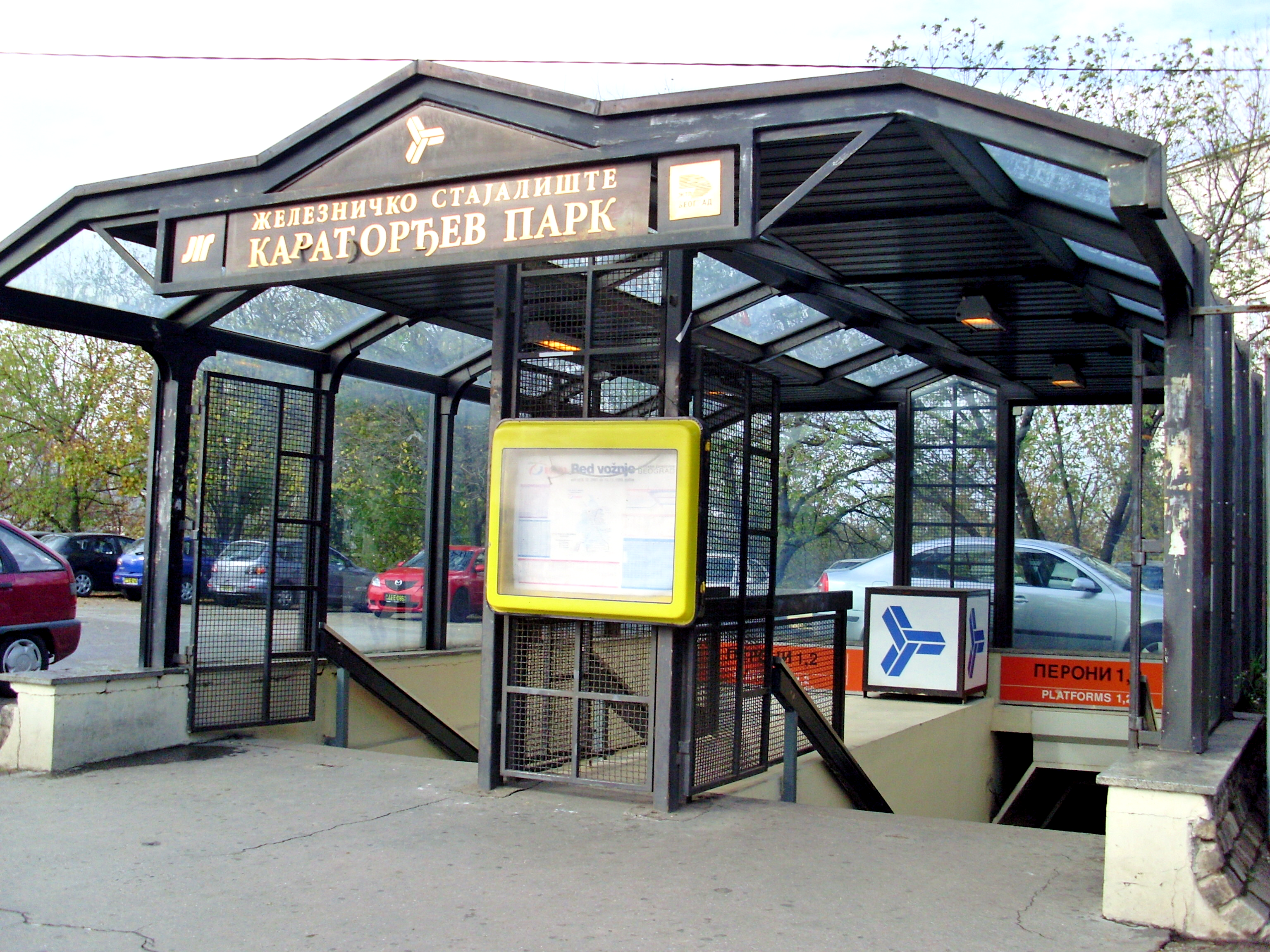 Entry to the Beovoz underground station Karadordev park on Savski venac